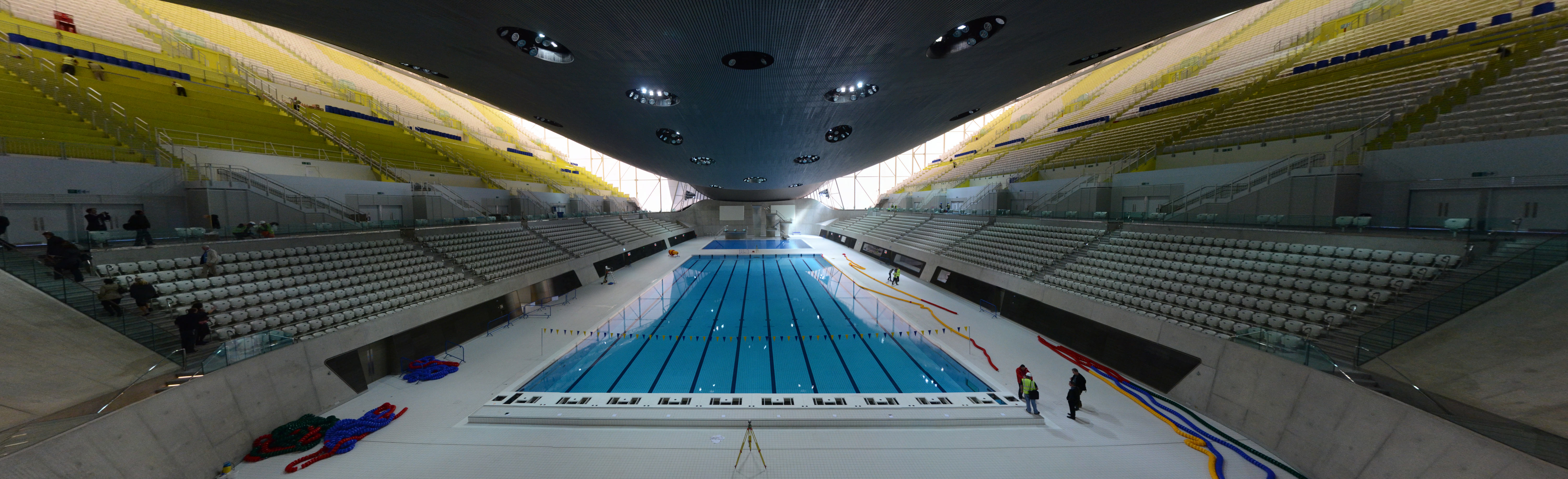 Interior panorama of the London Aquatics Centre, one of the venues of the 2012 Olympic Games. All the yellow seats will be removed after Olympics and the capacity of the centre will be lowered from 17,500 to just 2,000.